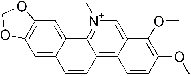 chemical structure of chelerythrine